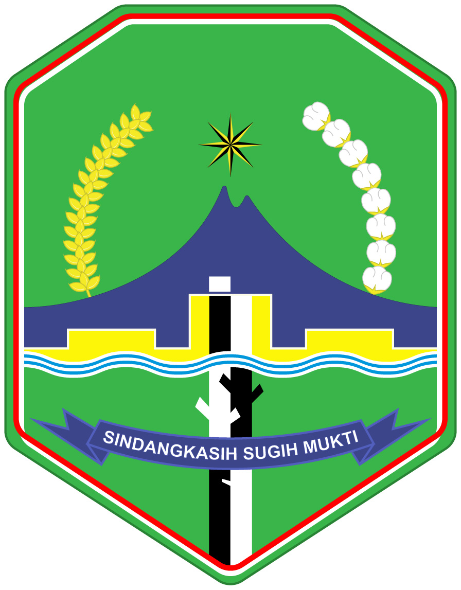 Lambang (Coat of Arms) of Kabupaten (Regency) of Majalengka, provinsi Jawa Barat (West Java Province), Indonesia